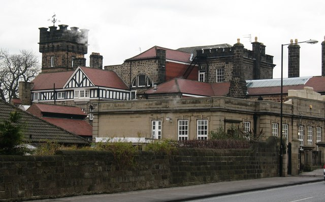 Grove House, Harrogate One of the most interesting buildings in the town, but not often noticed as most of it is hidden behind walls at the side of a busy main road. The oldest part dates from 1754 and was used as a small hotel for visitors to the developing spa. In the first half of the 19th century it served as a boarding school and finishing school for young ladies, then in 1850 it was purchased by Mr Samson Fox [ancestor of Edward Fox the actor] who greatly extended the building and also made it the first house in Yorkshire to have gas lighting and central heating. In the 20th century it saw service as an orphanage and convalescent home, which is part of its use today as well as being the HQ of the Royal Antediluvian Order of Buffaloes.